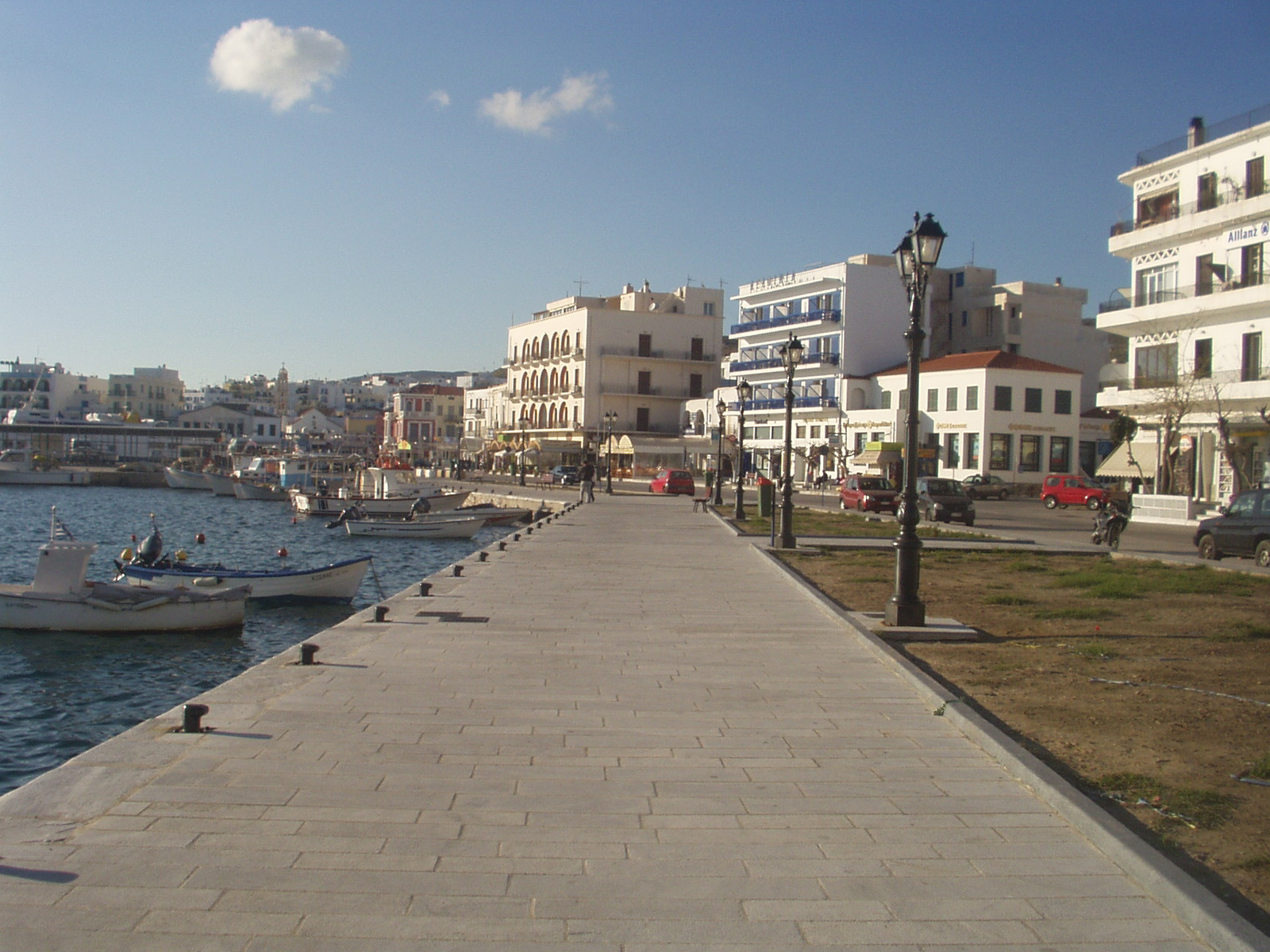 Town of Tinos